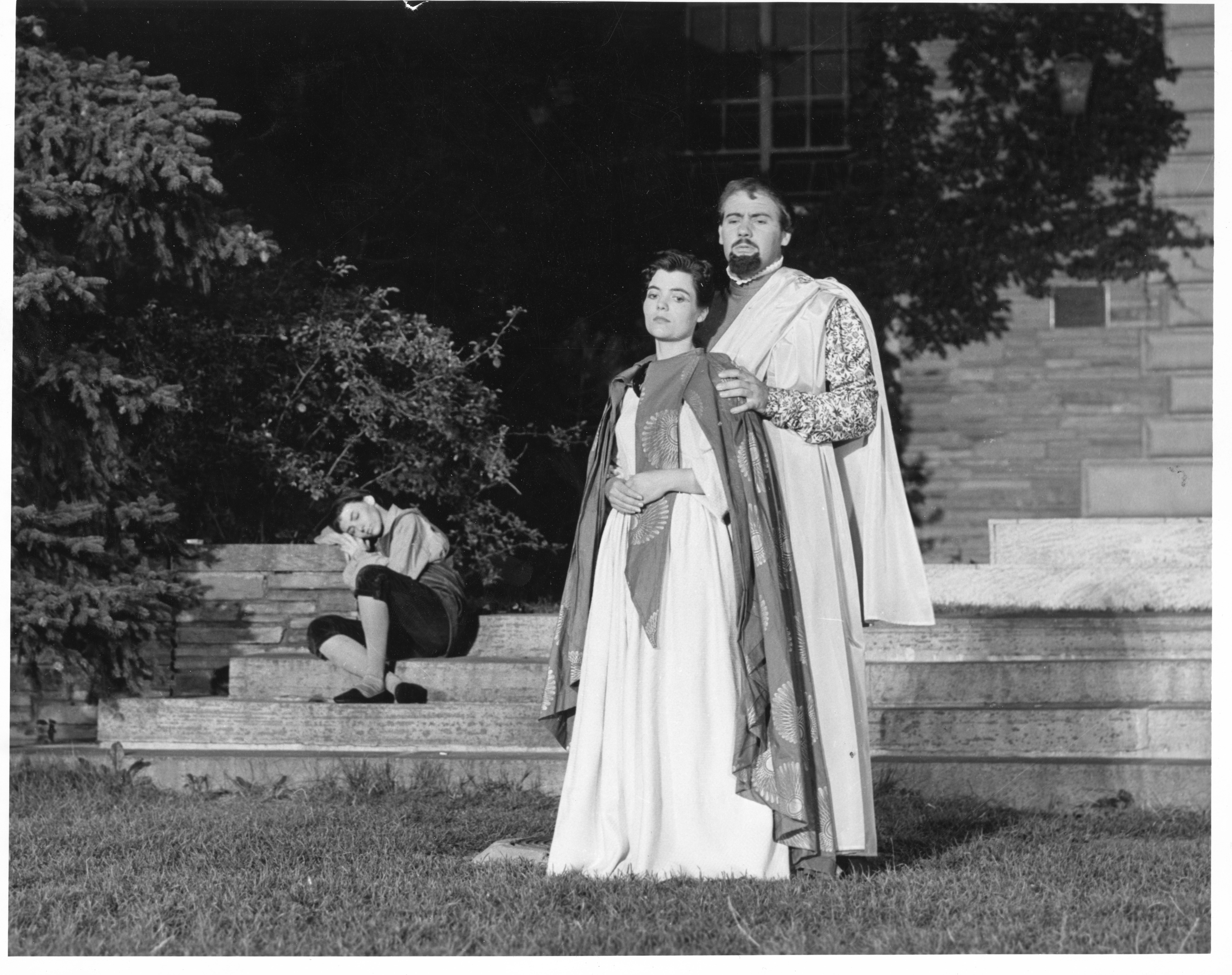 Julius Caesar, Colorado Shakespeare Festival, 1958, Mary Rippon Outdoor Theatre